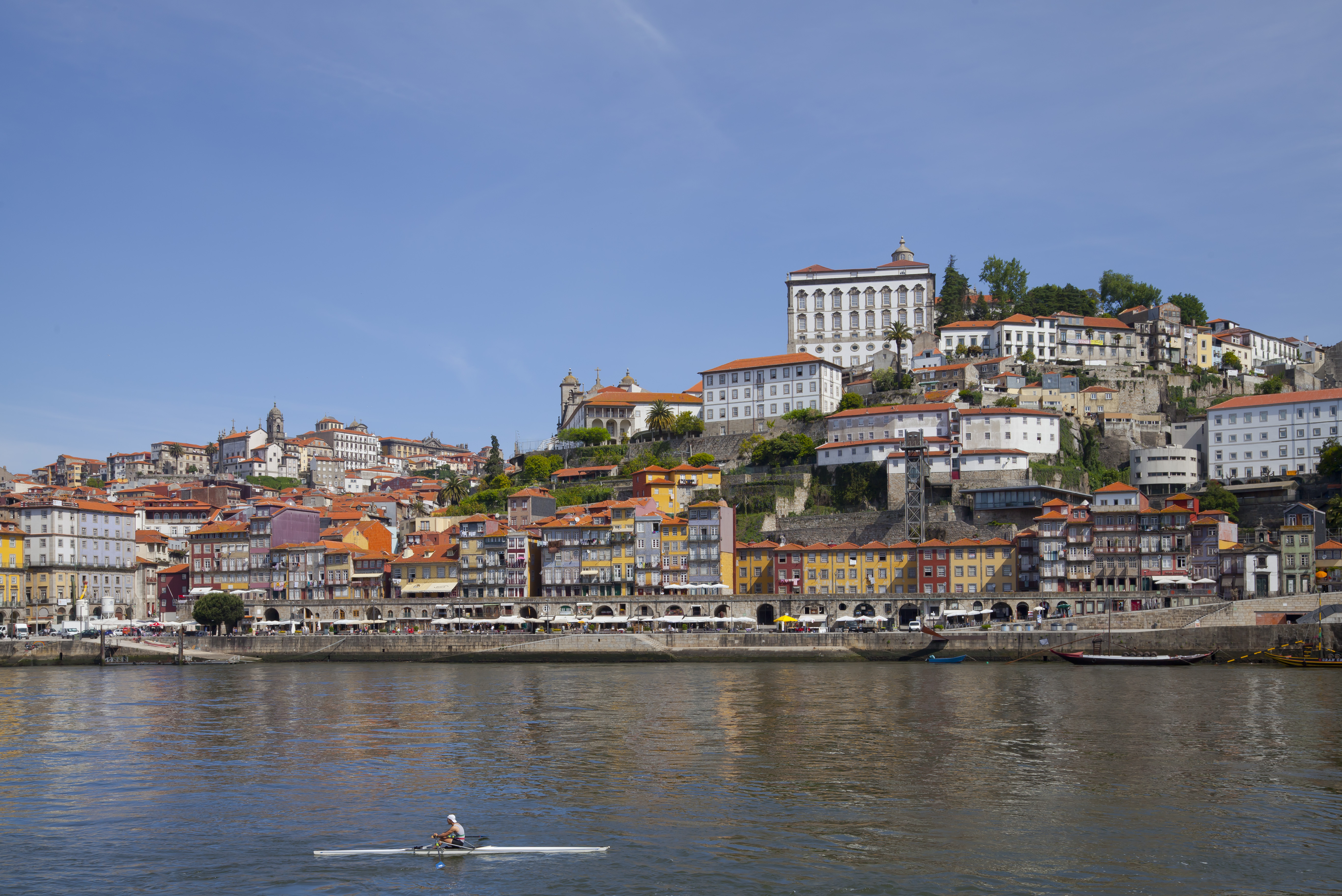 Cais da Ribeira, Porto, Portugal